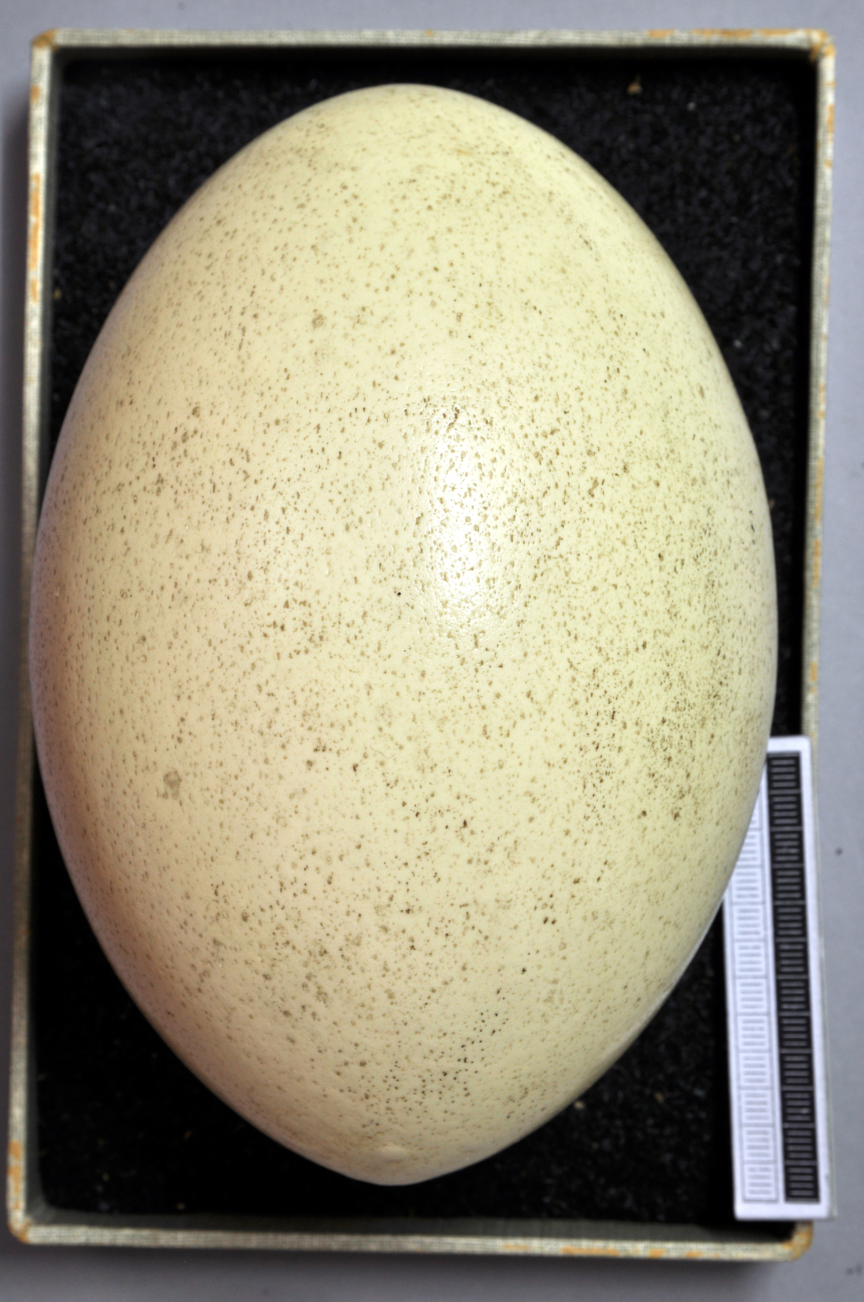 Greater rhea Rhea americana , egg, Coll. Museum Wiesbaden